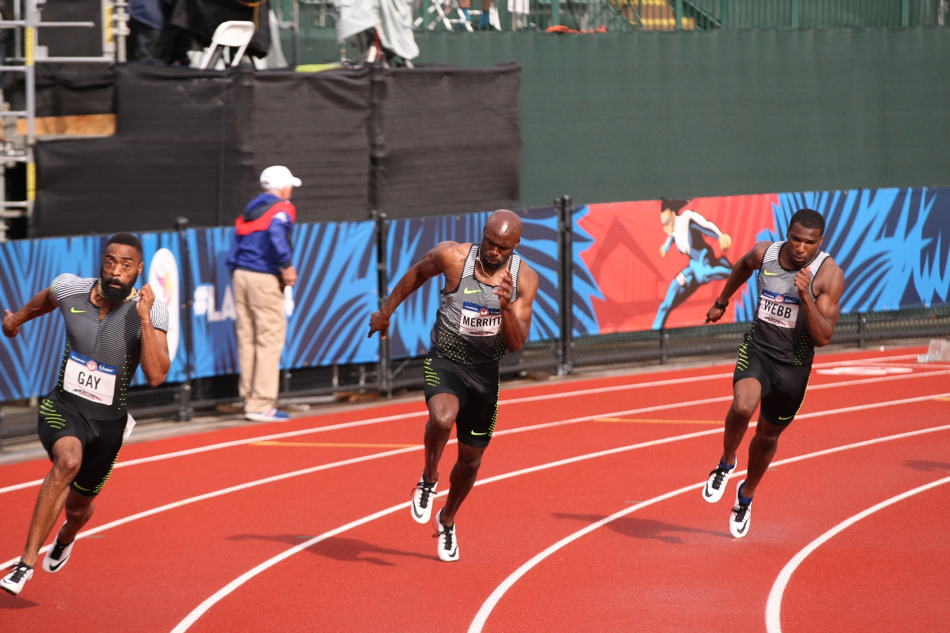 2016 U.S. Olympic Team Trials – Track & Field